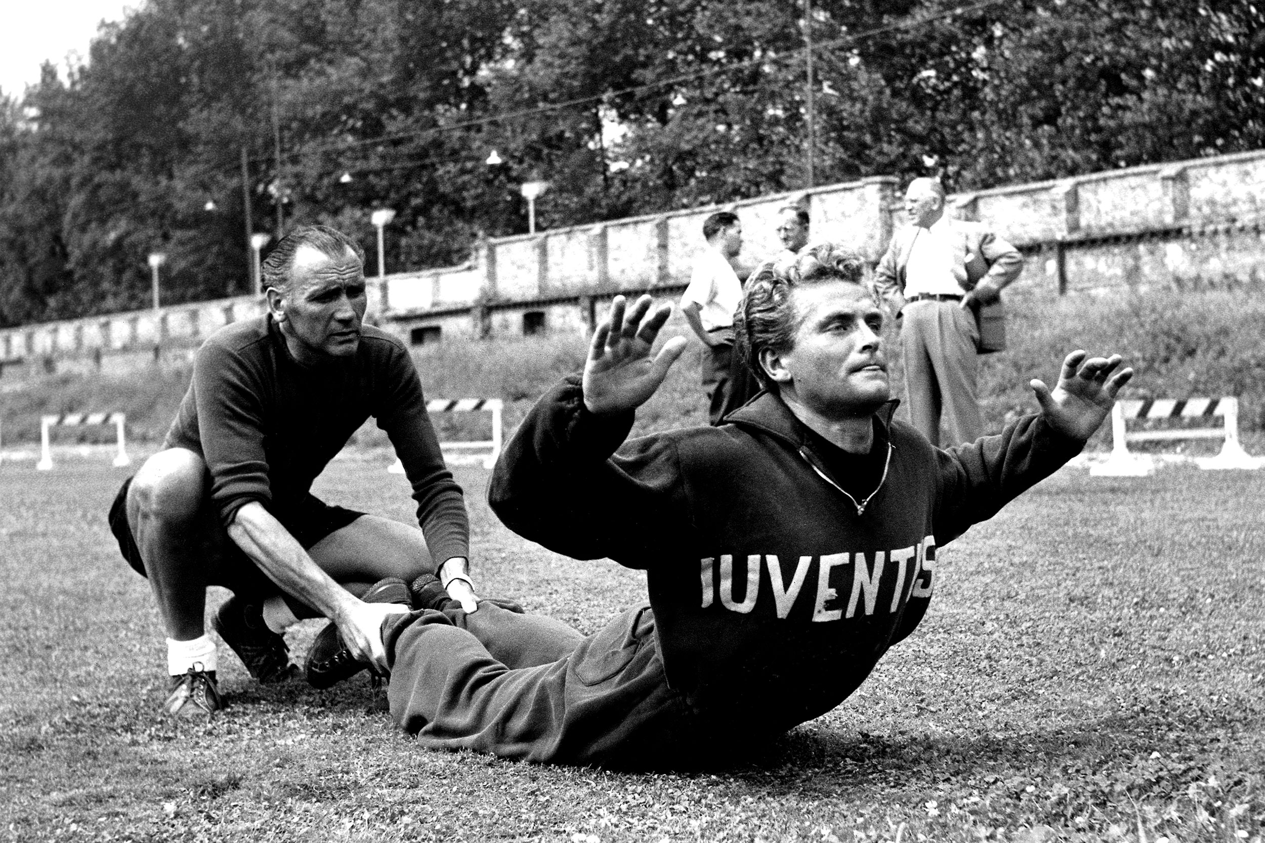 Turin (Italy), Campo Combi ("Combi Ground"). Italian footballer Giampiero Boniperti in training with Juventus F.C. in the 1951–52 season.